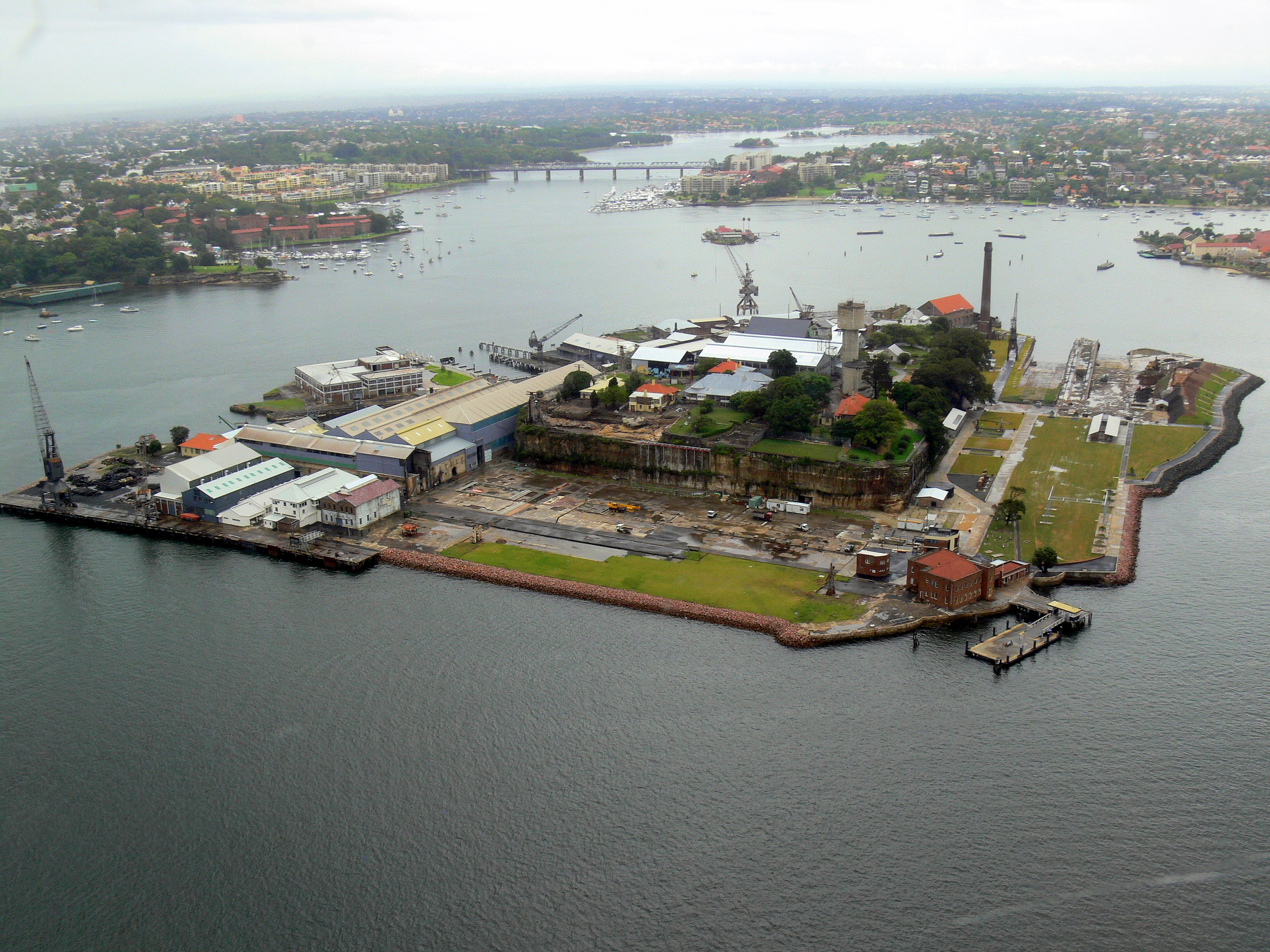 Cockatoo Island, Sydney, Australia. Photographed from an aircraft.